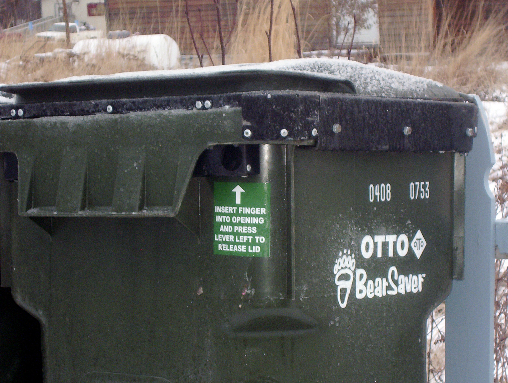 Bear resistant garbage can locking mechanism